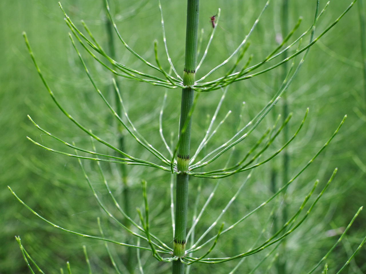 Horsetail (Equisetum sp., possibly E. pratense) Dysmorodrepanis 10:55, 28 May 2008 (UTC)